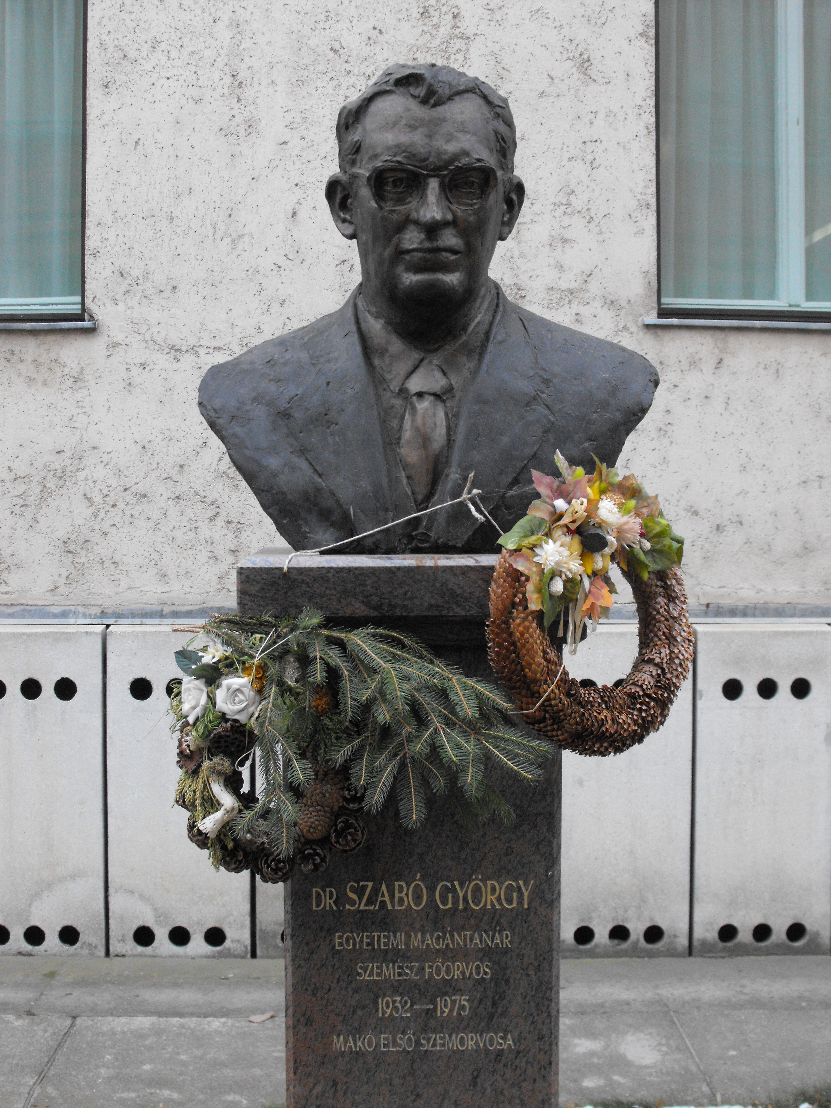 Statue of György Szabó, eye specialist and physician in Makó, Hungary.